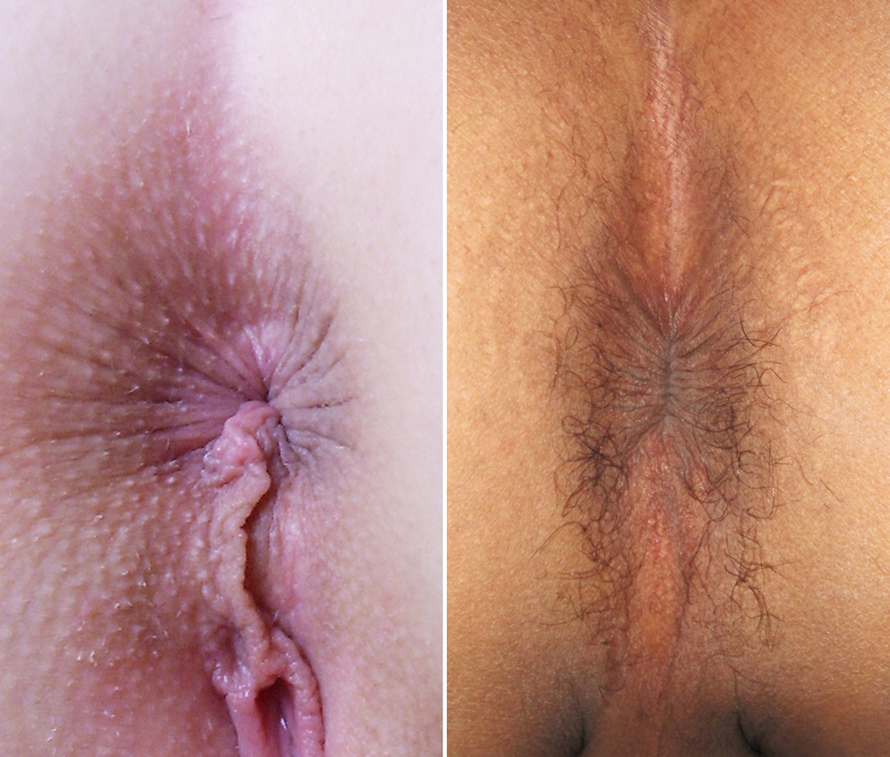 The anus of a female (left) and a male (right).